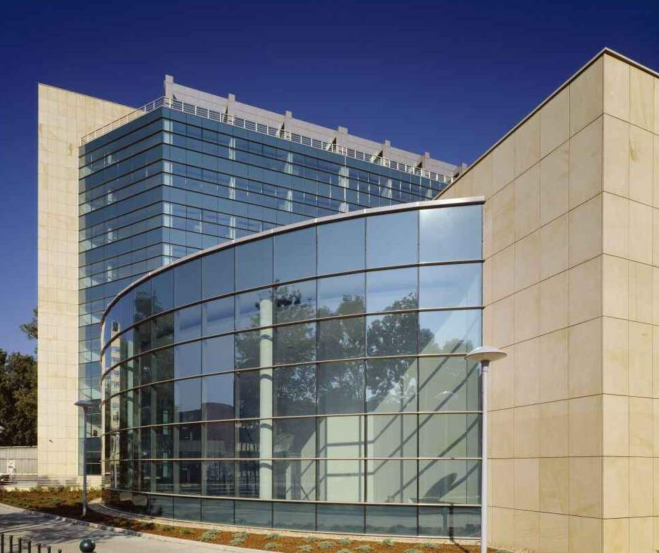 Wroclaw University of Technology D20 Building